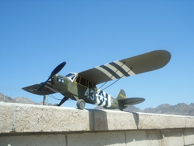 Custom-painted ParkZone J-3 Cub radio controlled aircraft built, owned, flown and photographed by User:Lucky 6.9 and released into the public domain.